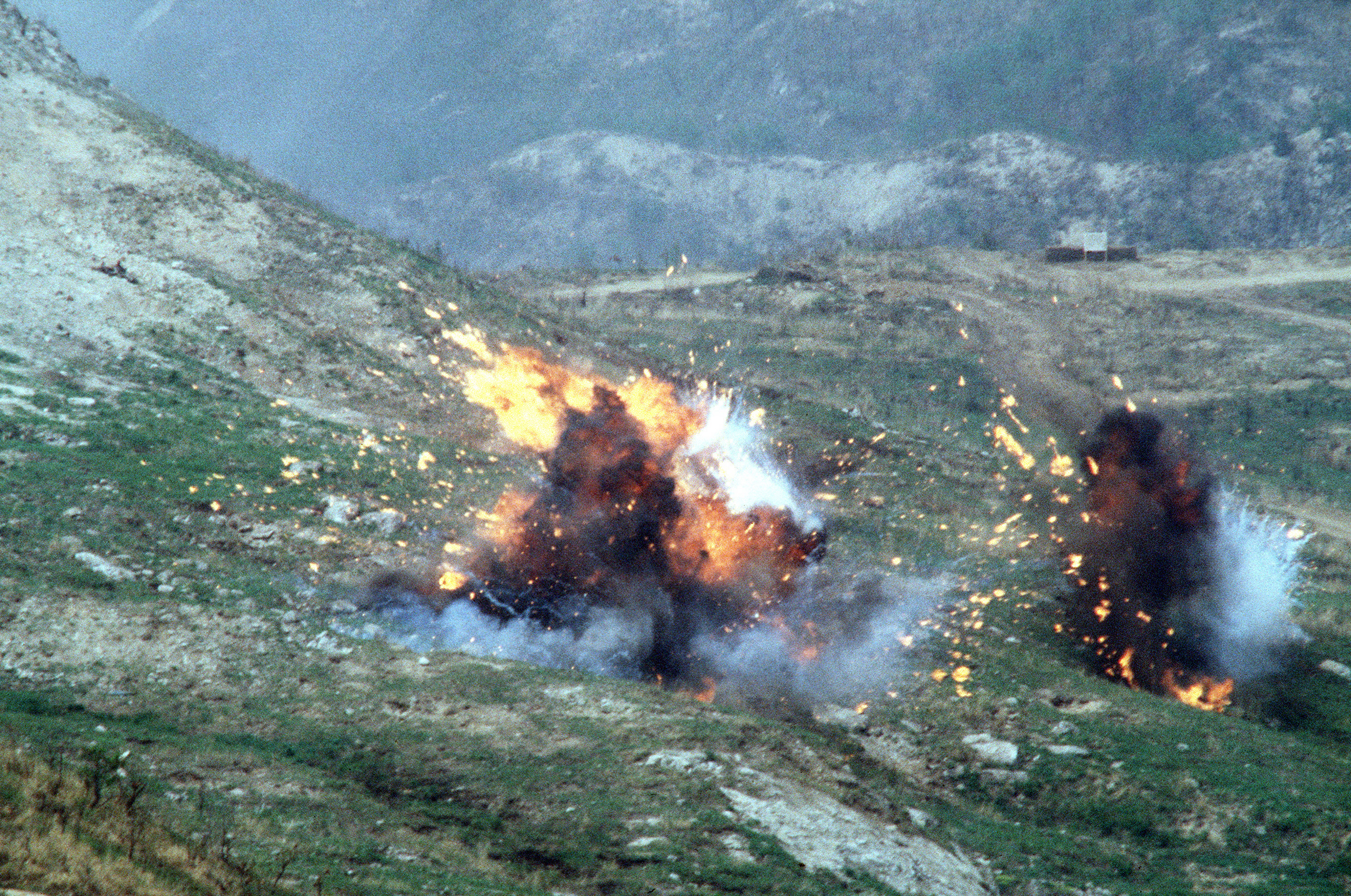 Napalm bombs explode on Nightmare Range after being dropped from a Republic of Korea Air Force F-4E Phantom II aircraft during a live-fire exercise.